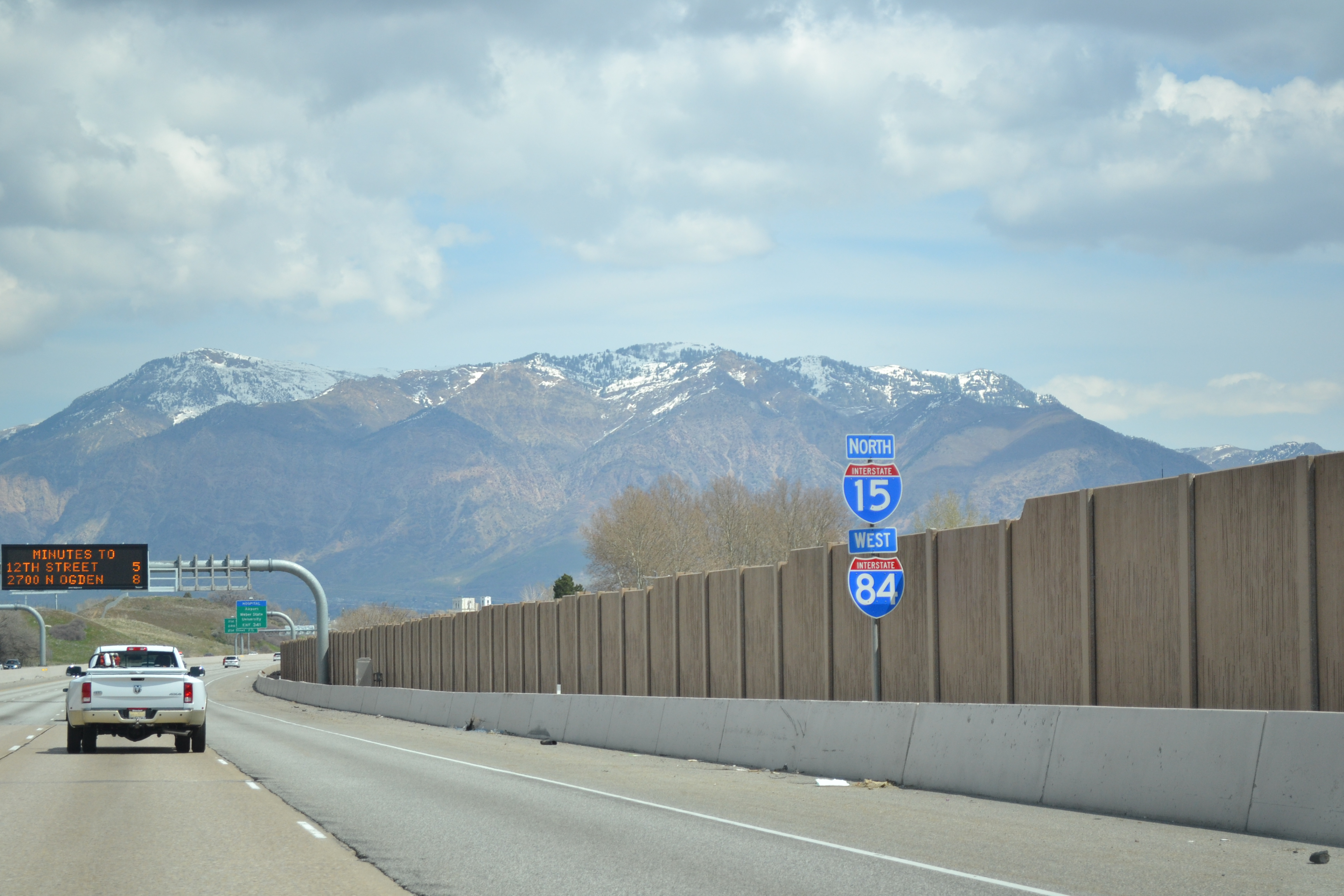 The I-15/I-84 concurrency in northern Utah is quite well signed.